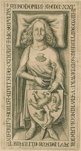 Ludwig IV. (Thüringen)